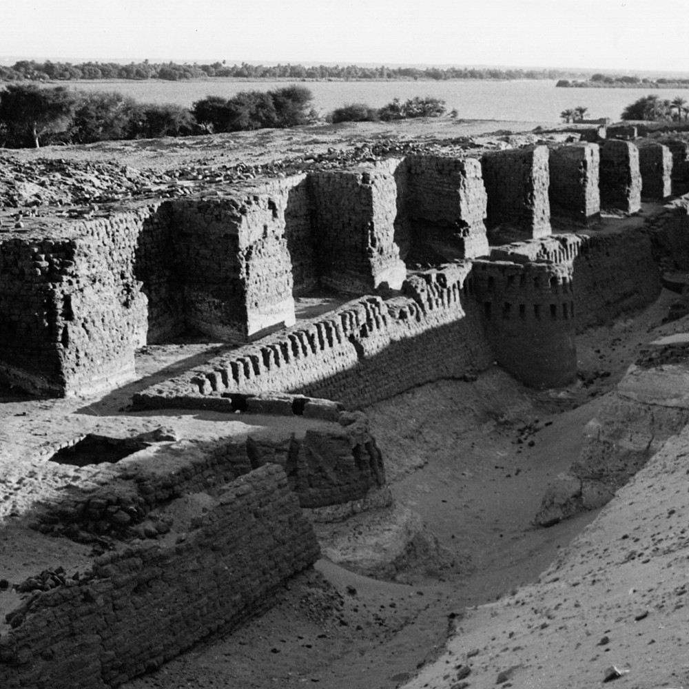 Fortress of the Middle Kingdom, reconstructed under the New Kingdom ( about 1200 B.C.). After the construction of the new dam it will be submerged by the waters. The Sudanese Antiquities Service will decide on its removal to a safe place. This file was made available as part of the Connected Open Heritage project. The project is led by Wikimedia Sverige in cooperation with UNESCO, Wikimedia Italia and Cultural Heritage without Borders and is financed by a project grant from the Culture Foundation of the Swedish Postcode Lottery.